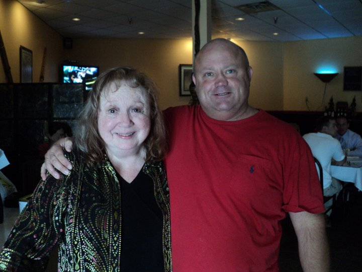 Actors Betty Lynn and Ian Oliver Martin in Mount Airy, North Carolina.